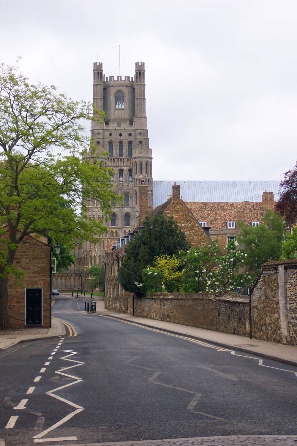 Ely Cathedral and The Gallery. Taken by gwendraith 27th June 2006